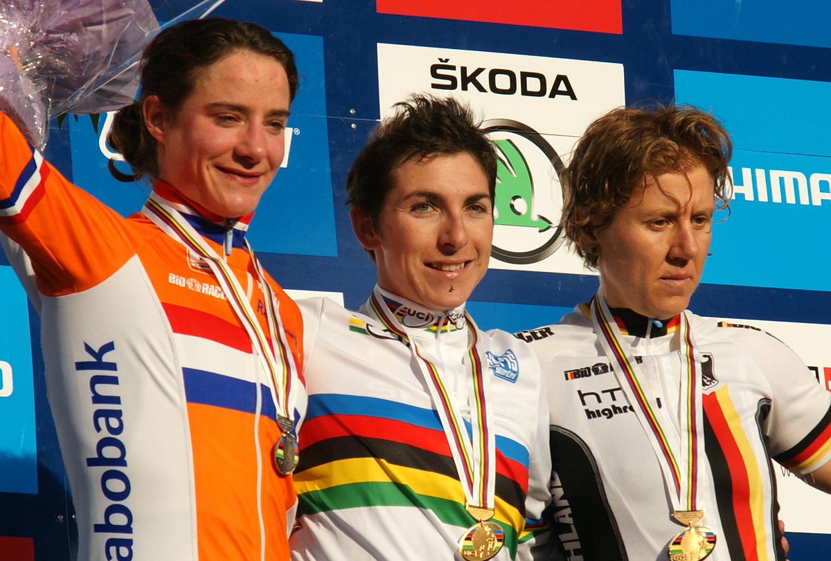 2011 UCI Road World Championships – Women's road race - Rudersdal north of Copenhagen, Denmark, 24 September 2011 - The podium with runner-up Marianne Vos, Netherlands (left) the winner and world champion Giorgia Bronzini, Italy (center) and no. 3 Ina-Yoko Teutenberg, Tyskland (right)